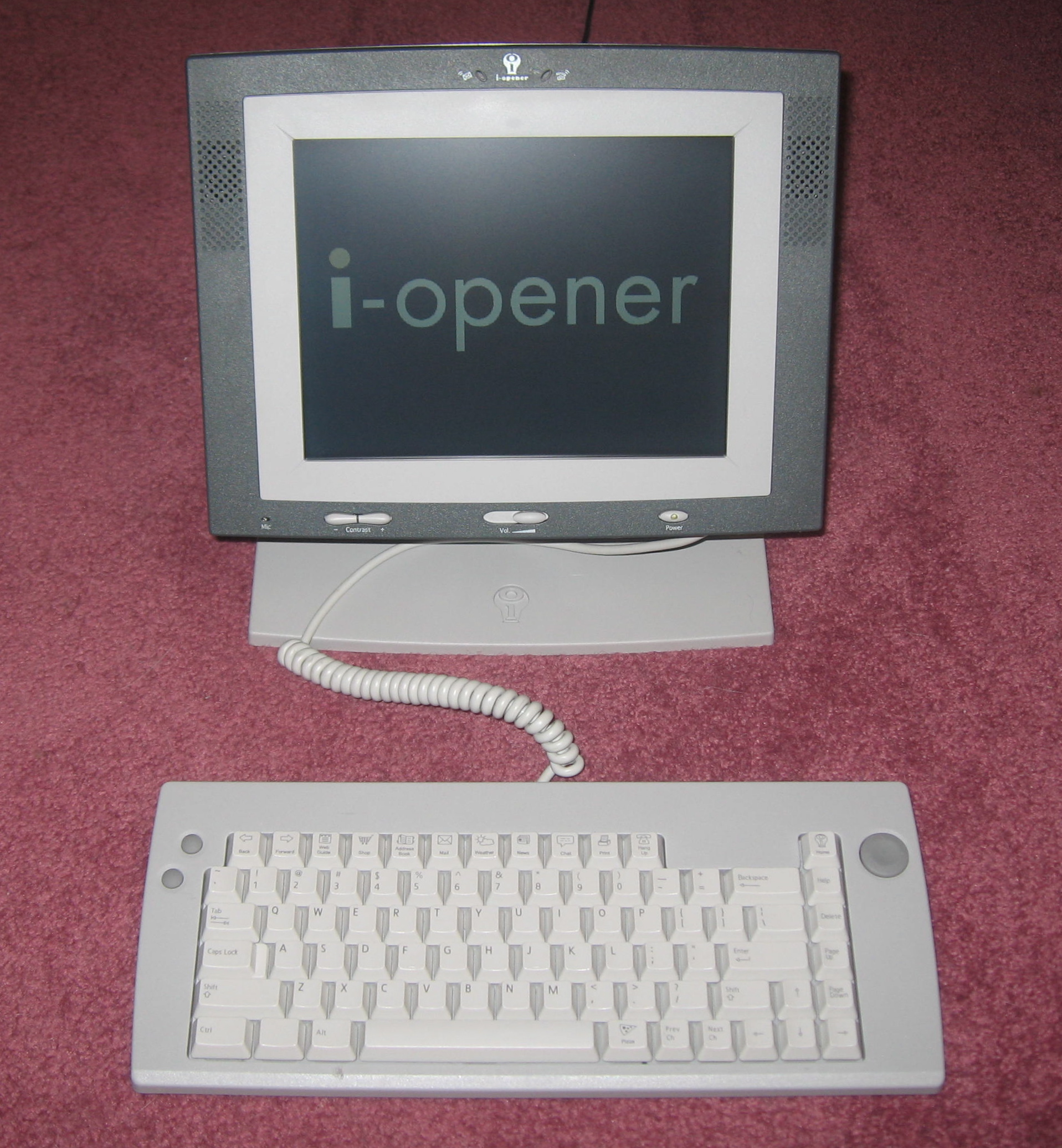 Photo of an i-Opener internet appliance booting up and showing its logo.